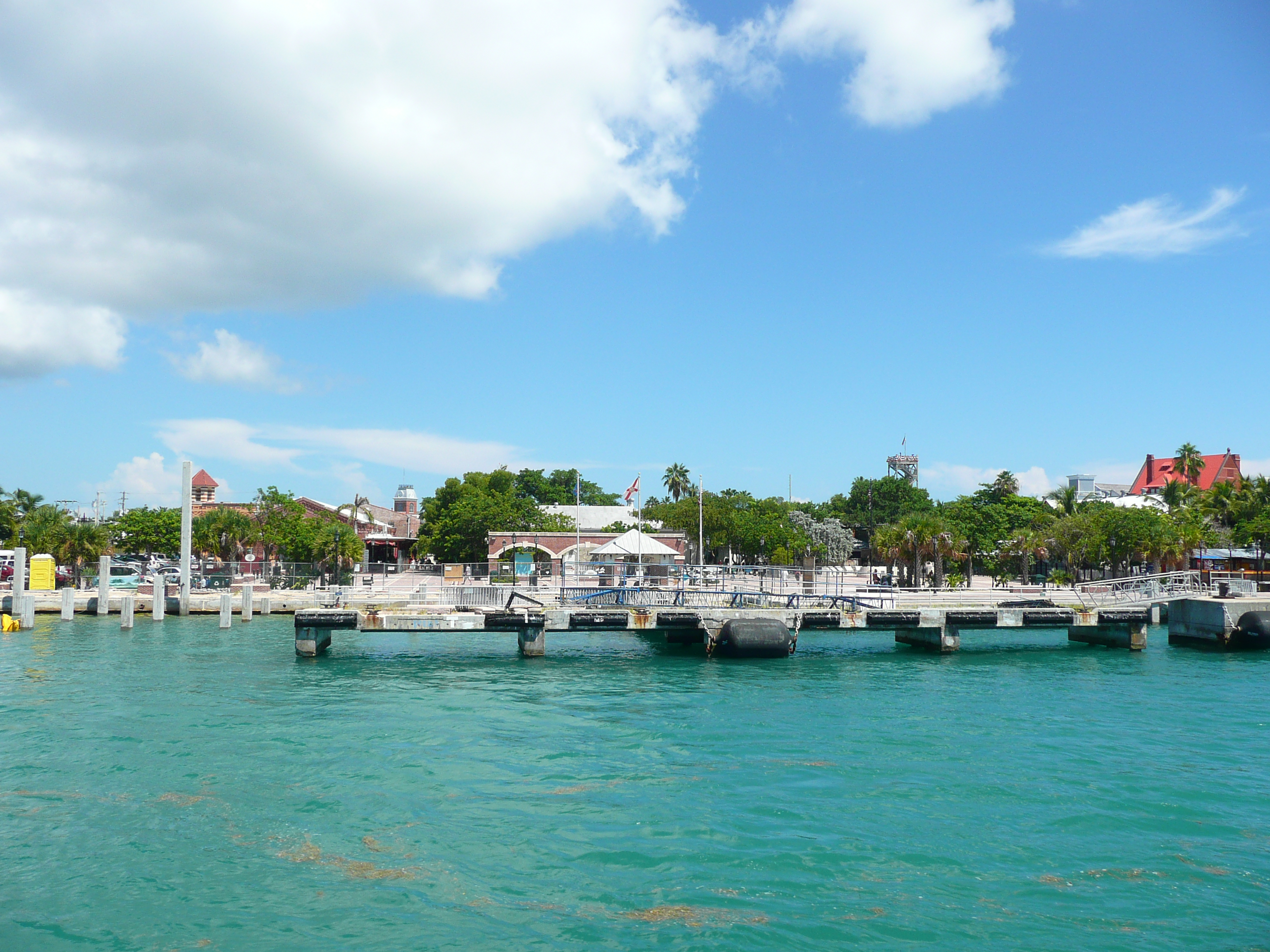 Digital photo taken by Marc Averette. Mallory Square in Key West, Florida as seen from the water.